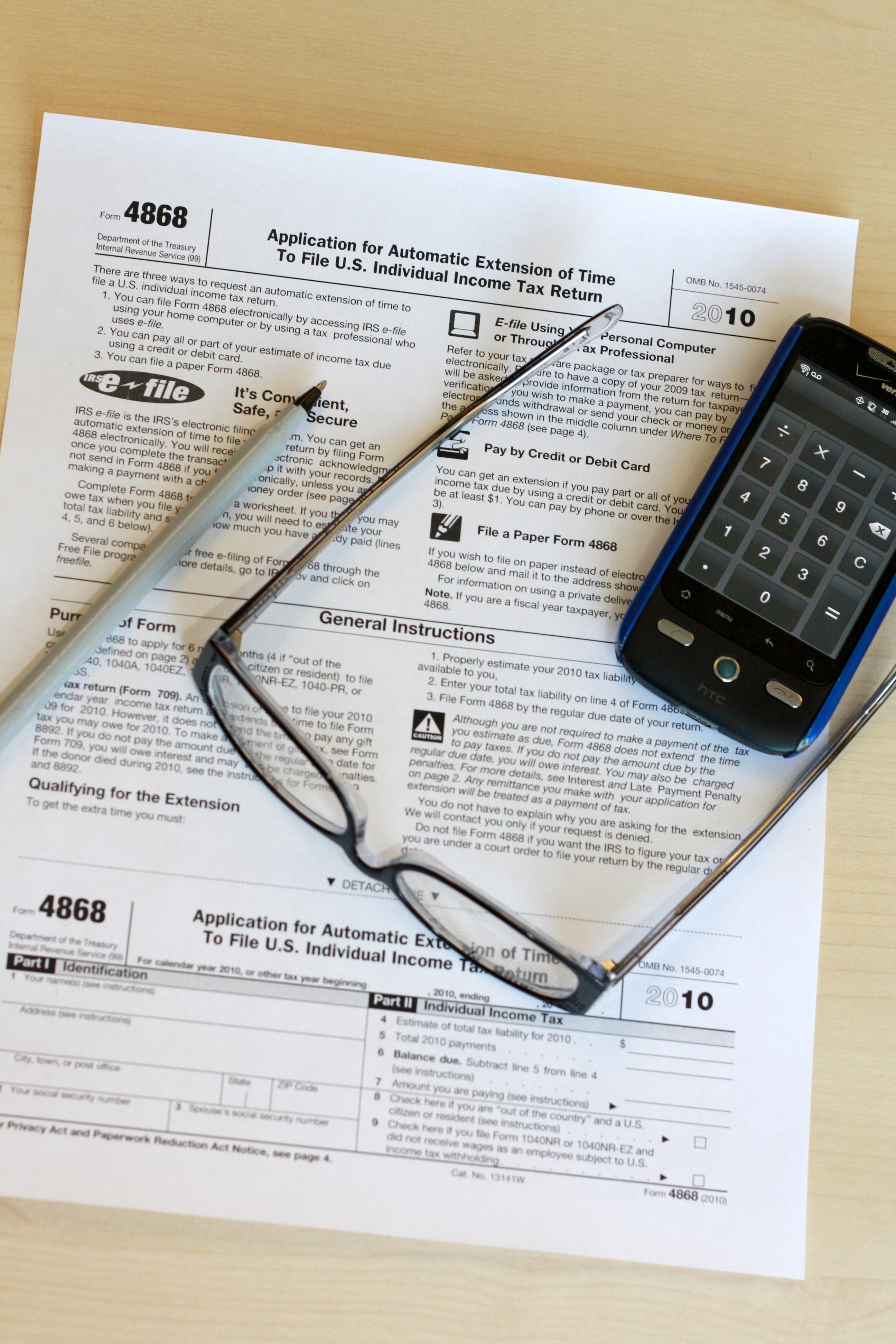 As the April 15 tax return filing date approaches, someone considers whether to file IRS Form 4868 asking for an extension. The calculator would be necessary as part of estimating the amount of taxes owed, if any, and paying that amount at the same time as filing the extension.